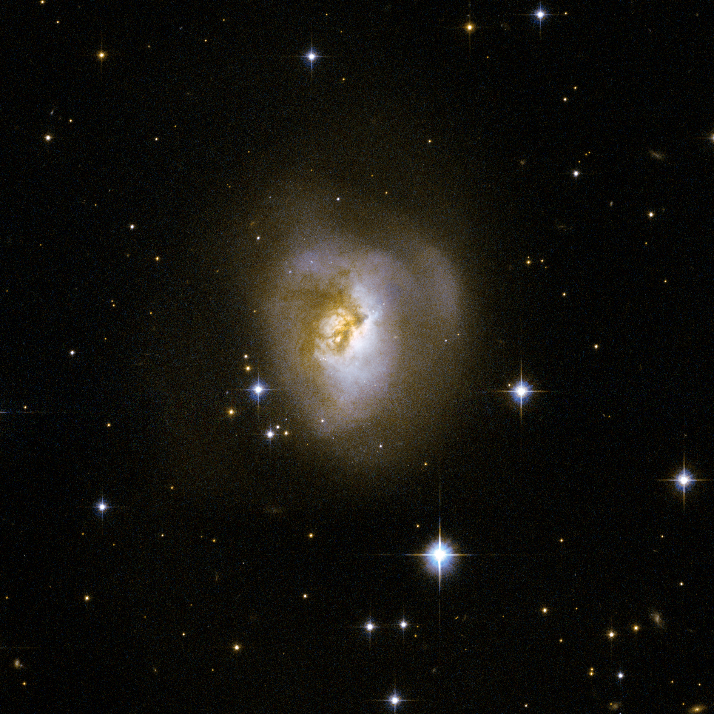 MCG+08-11-002 is an odd-looking galaxy with a spectacular dark band of absorbing dust in front of the galaxy's center, making it resemble a "Black Eye". Scientists believe that it is the remnant of an earlier collision of two separate galaxies. This peculiar galaxy is at the center of a rich field of foreground stars, close to the plane of our own Milky Way galaxy. MCG+08-11-002 is about 250 million light-years away in the constellation of Auriga, the Charioteer. This image is part of a large collection of 59 images of merging galaxies taken by the Hubble Space Telescope and released on the occasion of its 18th anniversary on 24th April 2008. About the objectObject nameMCG+08-11-002Object descriptionInteracting GalaxiesPosition (J2000)05 40 44.01 +49 41 41.2ConstellationAurigaDistance250 million light-years (100 million parsecs)About the dataData descriptionThe Hubble image was created using HST data from proposal 10592: A. Evans (University of Virginia, Charlottesville/NRAO/Stony Brook University)InstrumentACS/WFCExposure date(s)September 4, 2001Exposure time36 minutesFiltersF435W (B) and F814W (I)